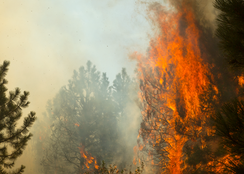 Pine trees torching off during Milli Fire near Sisters, Oregon; August 2017